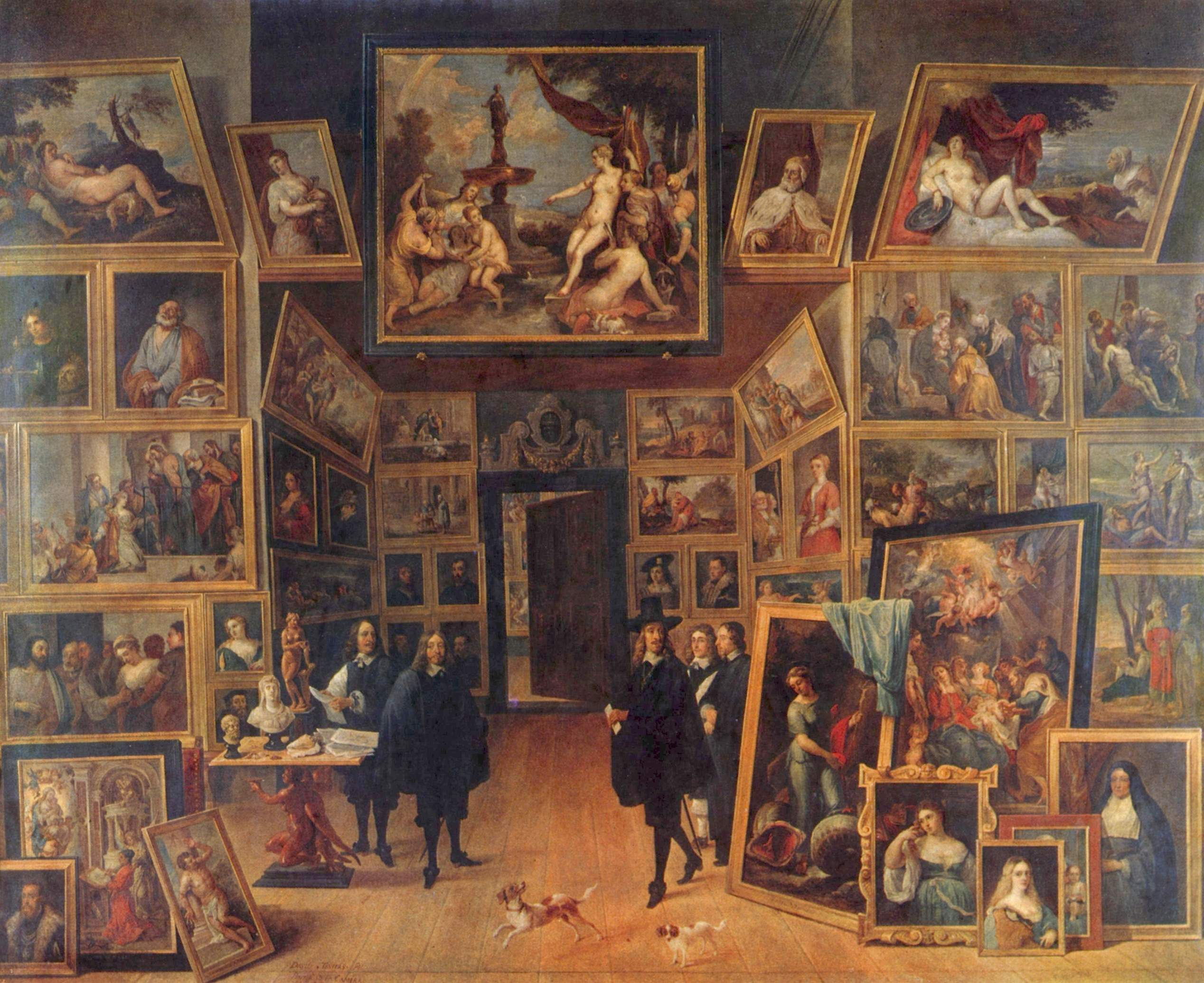 The Archduke, wearing a hat, is showing his pictures, almost half of them by Titian. Other Venetians represented are Giorgine, Antonello da Messina, Palma Vecchio, Tintoretto, Bassano and Veronese; there are also Mabuse, Holbein, Bernardo Strozzi, Guido Reni and Rubens. The sculpture supporting the table, is Ganymede, a bronze by Duquesnoy the Younger. Four gentlemen, are with the Archduke, one of whom is Teniers, his court painter.